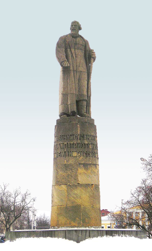 Image d'origine : Monument to Ivan Susanin in Kostroma. Photo is taken by Ghirlandajo on January, 7, 2005. Source: Image:Susanin.jpg Image retouchée d'après l'original (contraste, ciel)